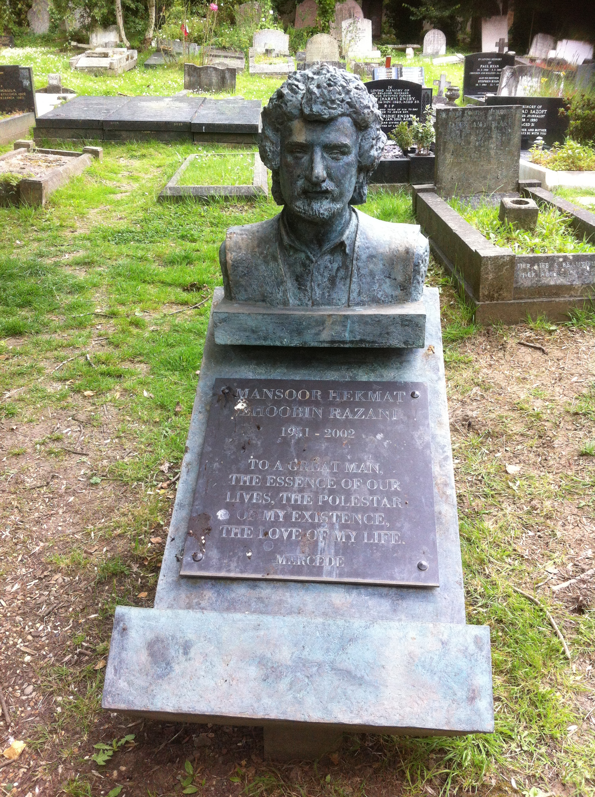 The grave of the Iranian Marxist Mansoor Hekmat in Highgate Cemetery.